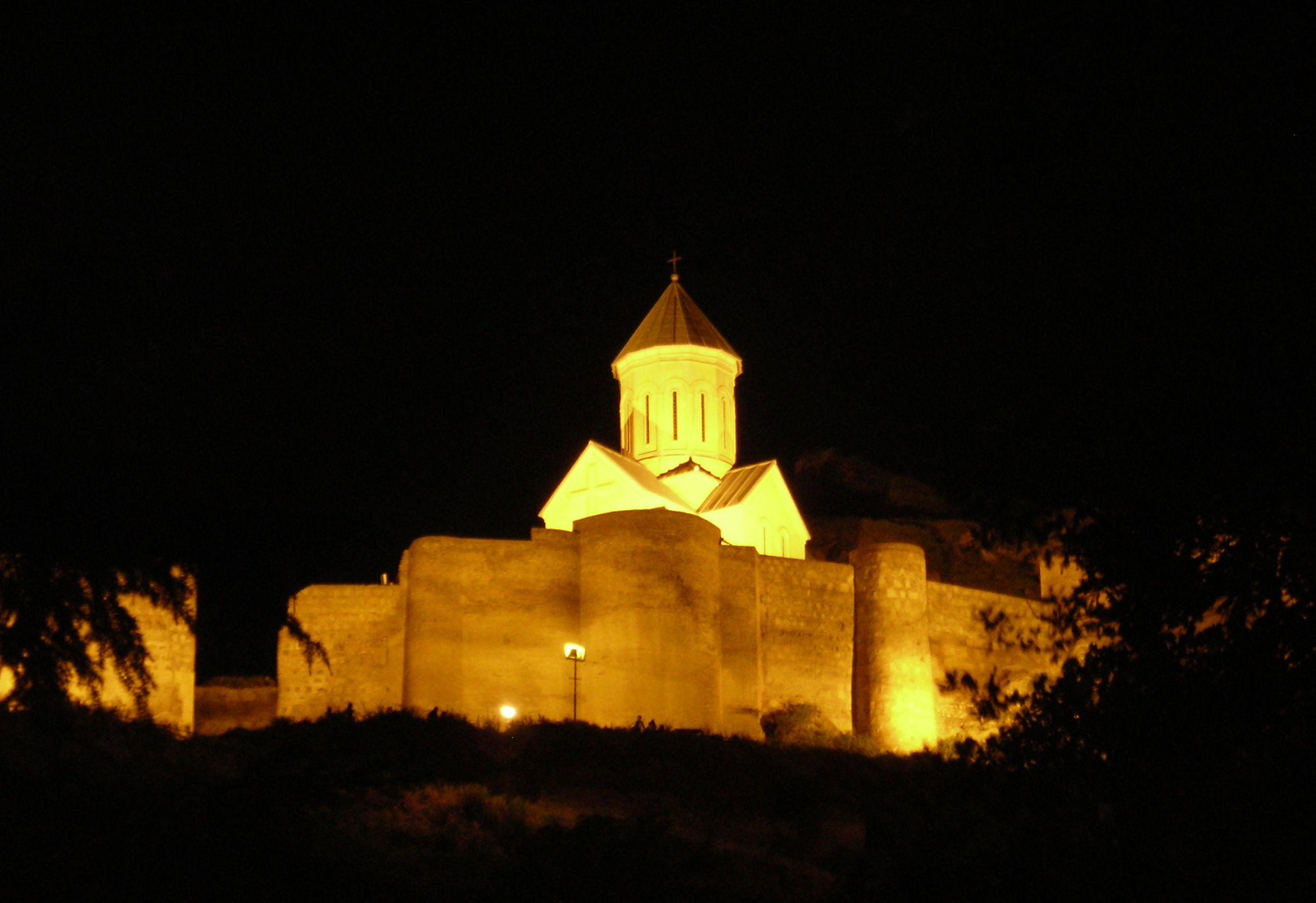 One of the many Georgian Orthodox churches in Tbilisi, at night with a 2-second shutter time. This is the Church of St. Nicholas, near the baths in Ortachala.